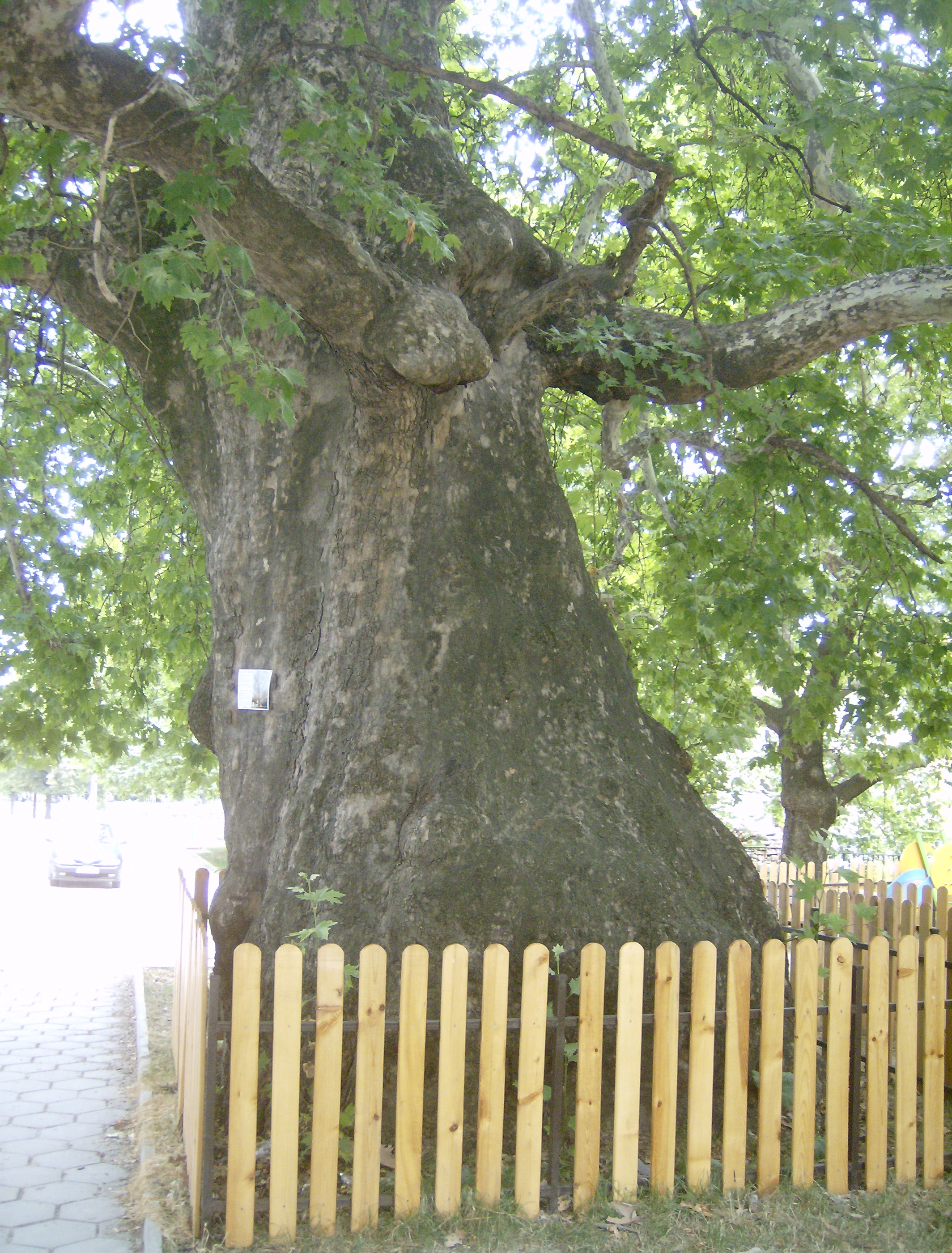 Old Plane Tree, Gotse Delchev